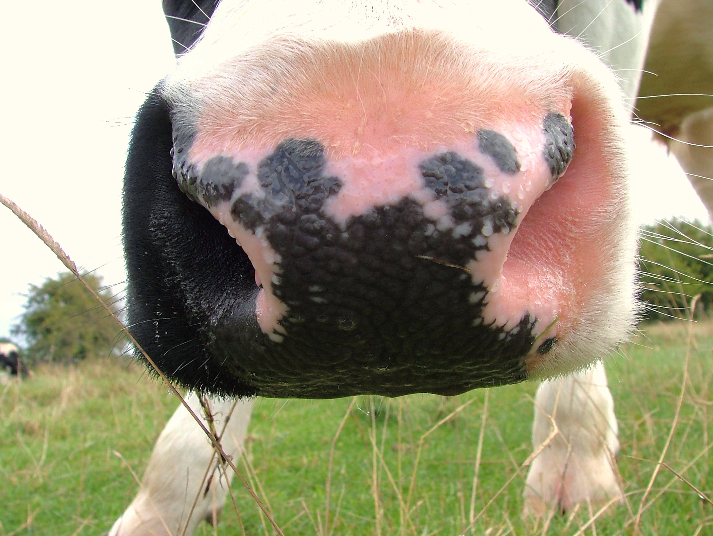 A cow's nose, Dedham, Essex, England